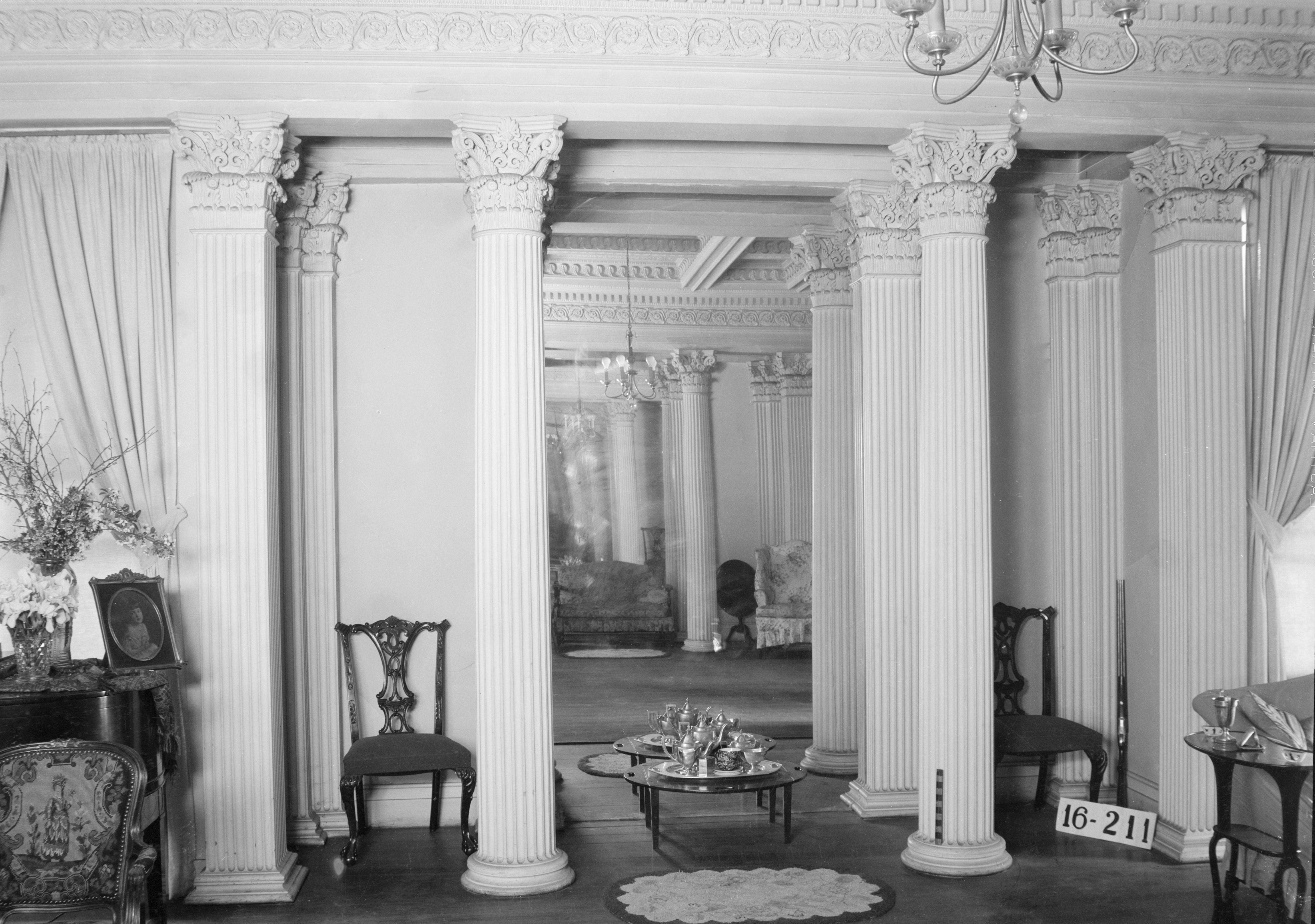 Gaineswood, 805 South Cedar Street, Demopolis, Marengo County, AL Ballroom, northeast columns and mirror.